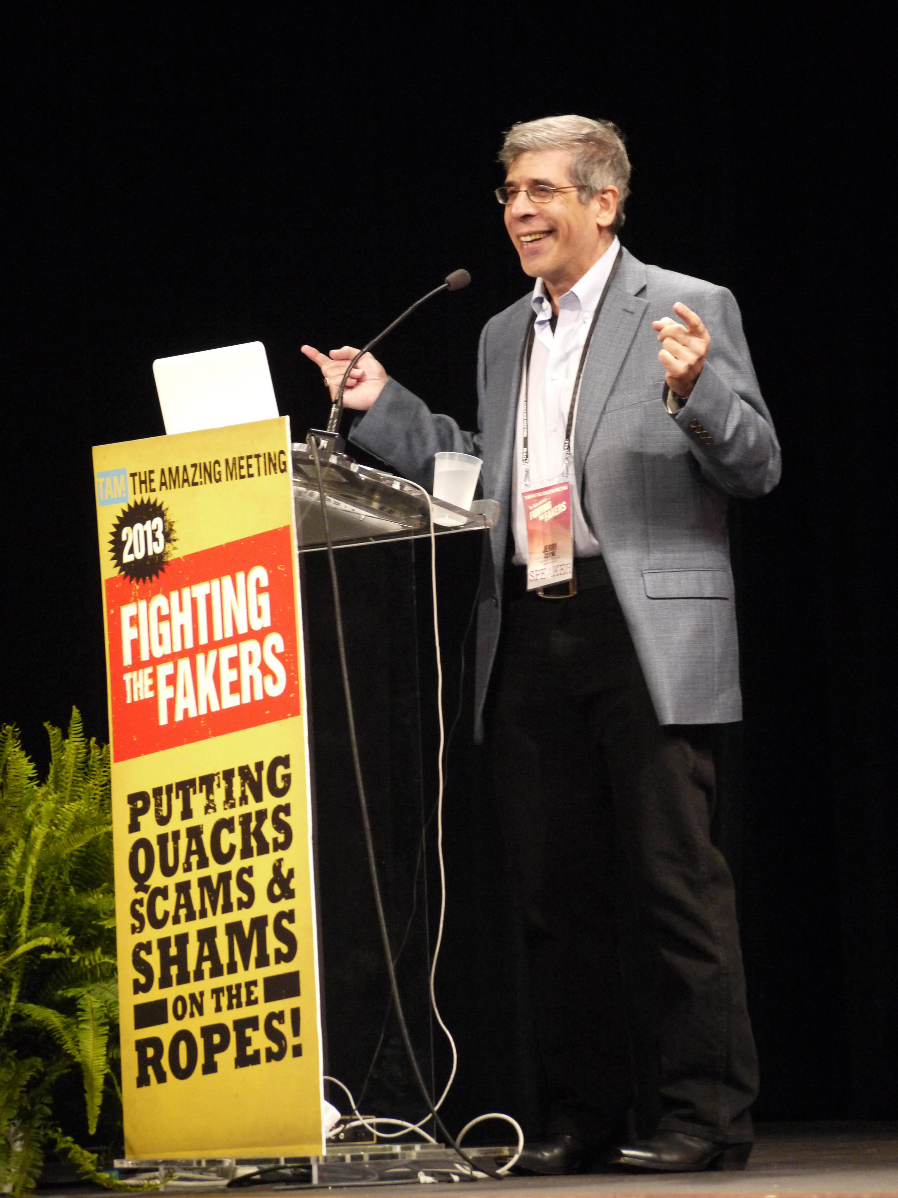 Jerry Coyne speaking at The Amazing Meeting.